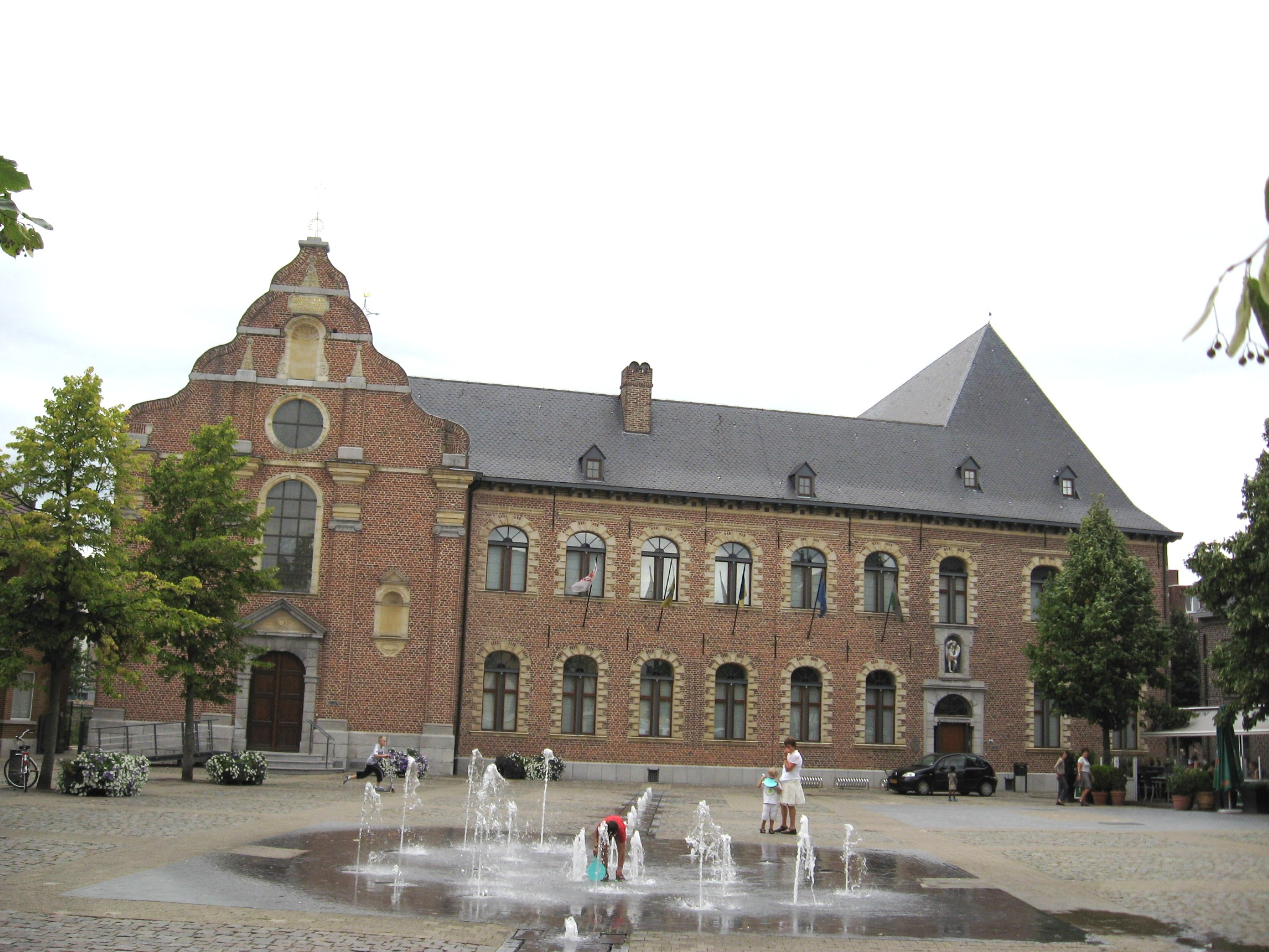 Town hall and former monastery in Bree, Limburg, Belgium